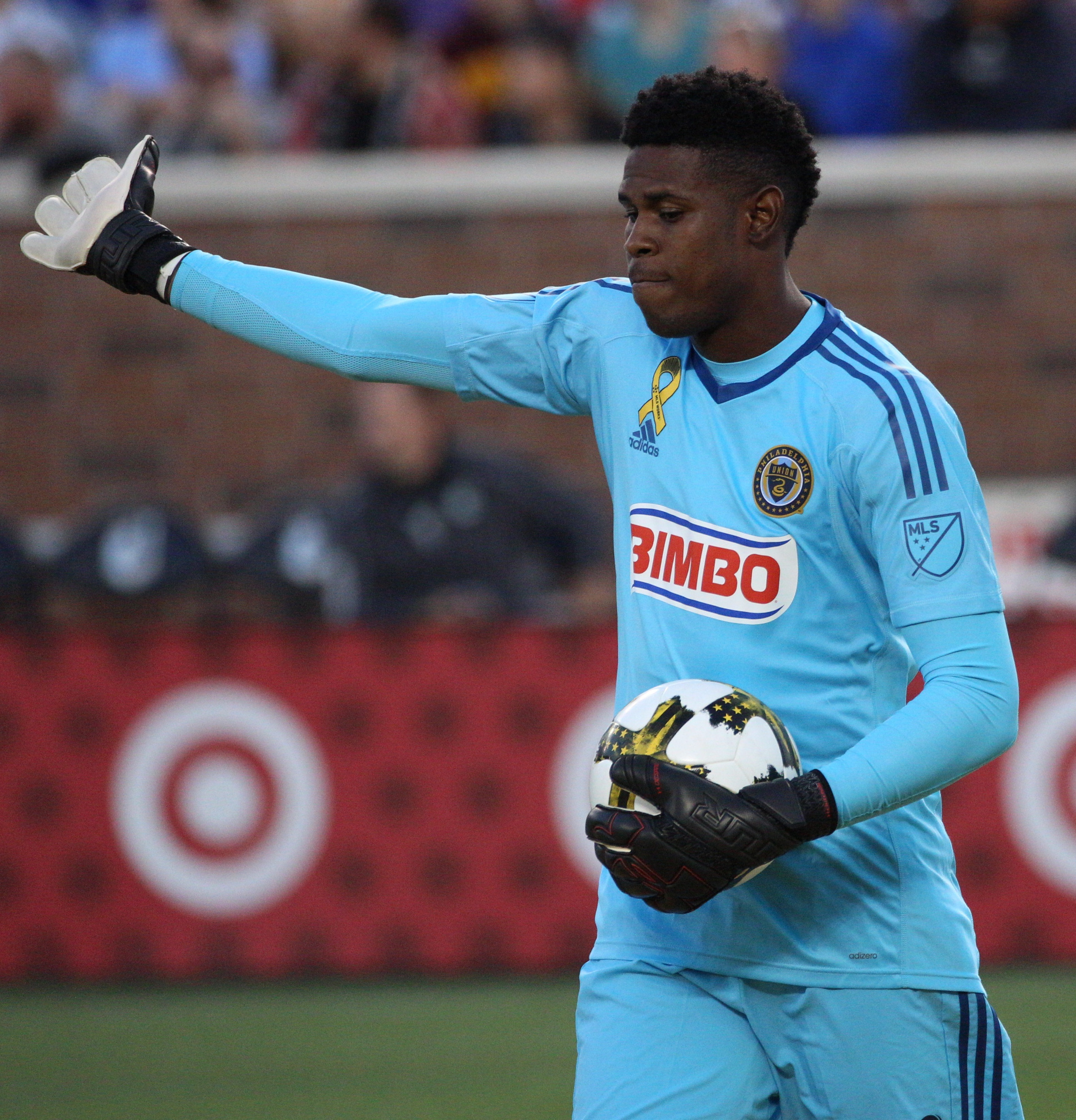 Andre Blake - Philadelphia Union - MLS - Soccer